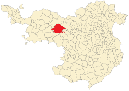 Vall de Bianya